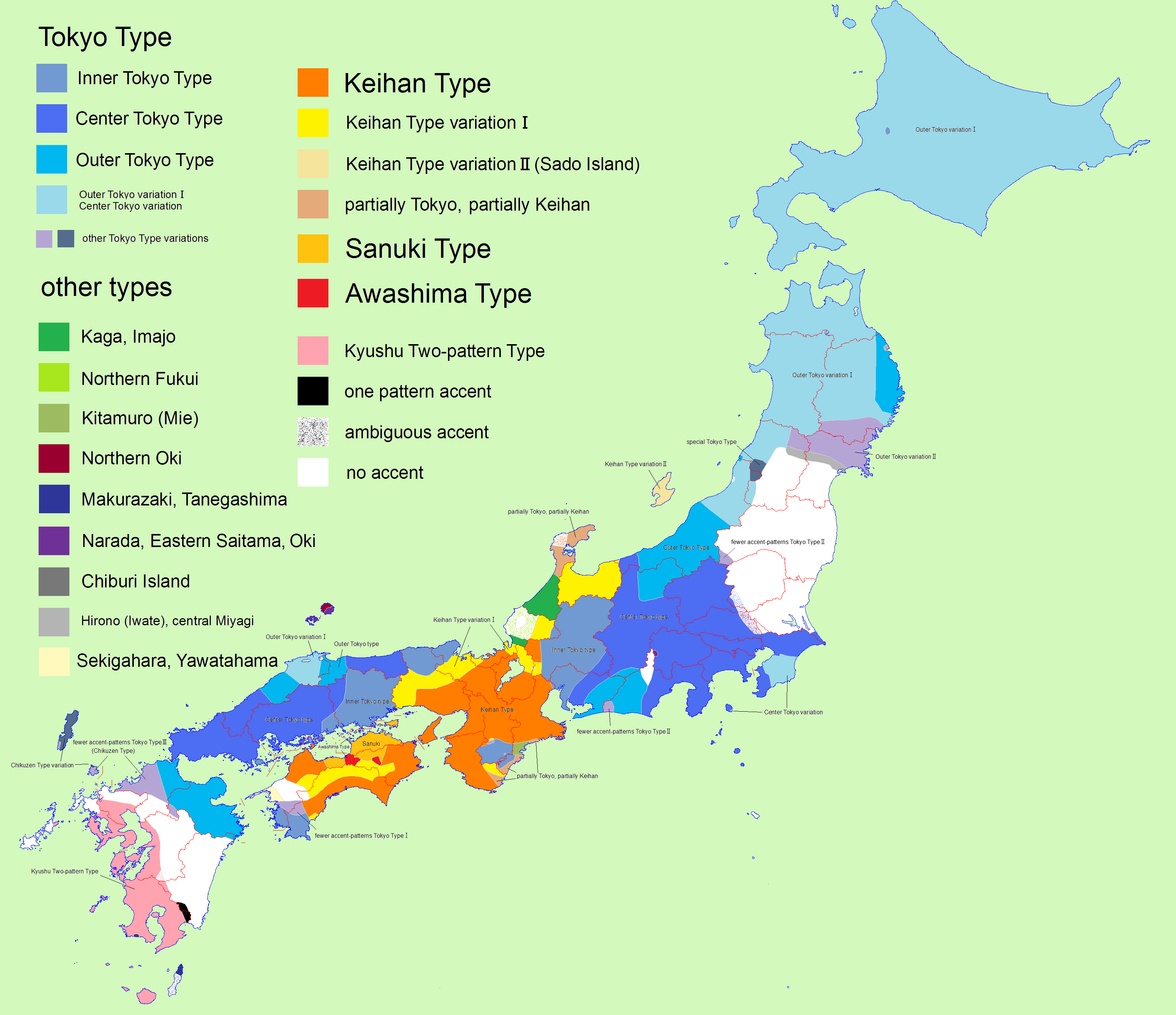 Zones map of Japanese pitch accent (with English description)